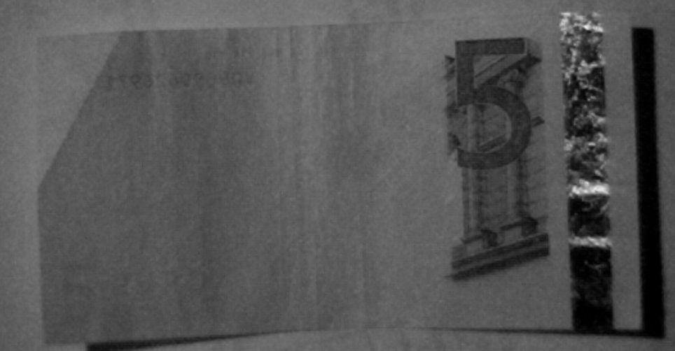 a 5 euro bill viewed through an infrared camera to show this security measure.